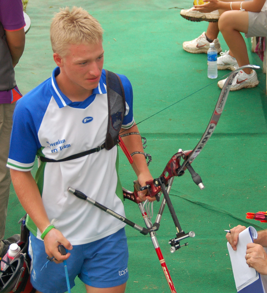 Slovenian archer Gregor Rajh preparing for competition at the 2010 Summer Youth Olympics in Singapore.